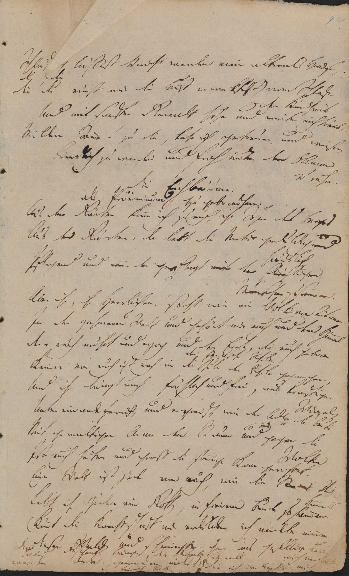 Friedrich Hölderlin: Die Eichbäume, Hölderlin's copy from first print, page 1